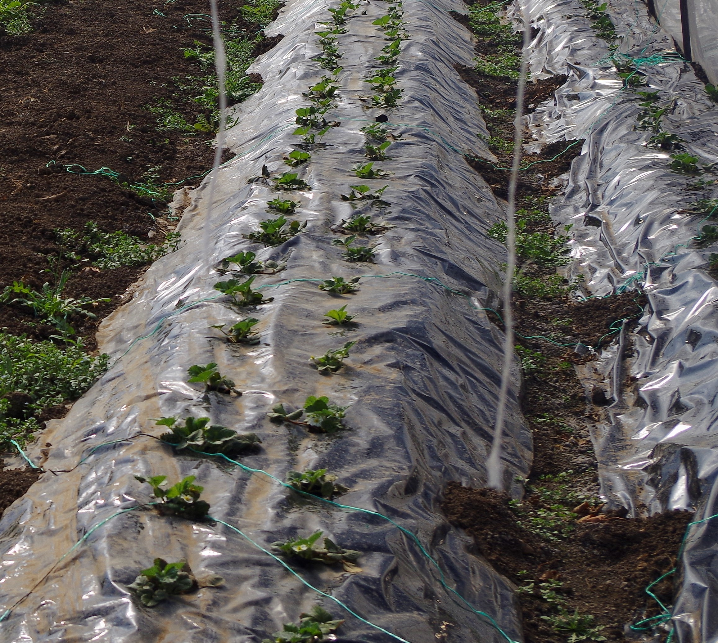 Growing strawberries in greenhouse.